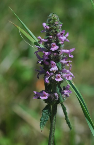 Stachys officinalis, flowers